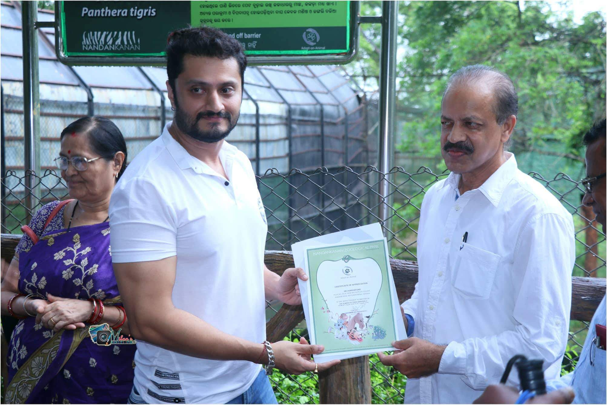 Actor Chandan Kar receiving a certificate of appreciation from the Deputy Director of Nandankanan Mr. Jayant K Das